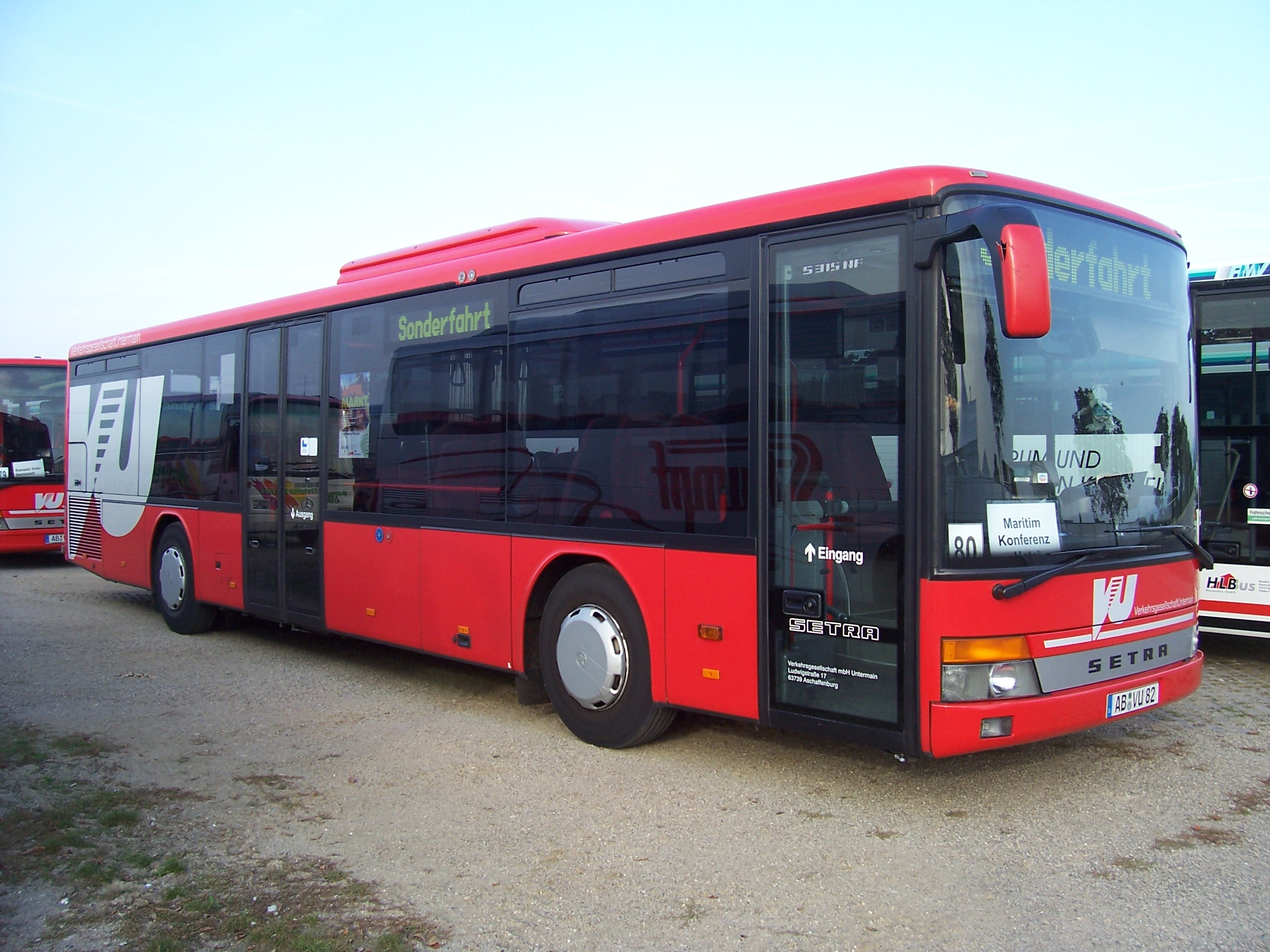 Setra S 315 NF bus (reg. AB-VU 82) in Mannheim, Germany. Verkehrsgesellschaft mbH Untermain operator.